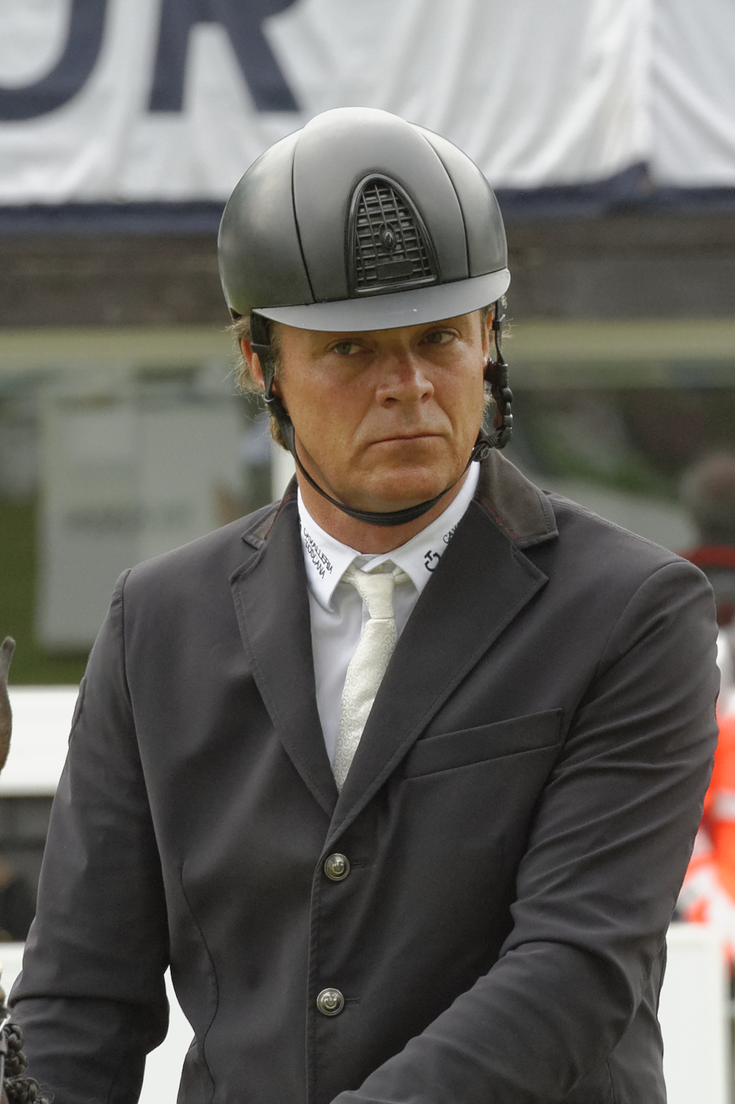 Internationales Pfingstturnier Wiesbaden 2013 The making of this document was supported by the Community-Budget of Wikimedia Germany.